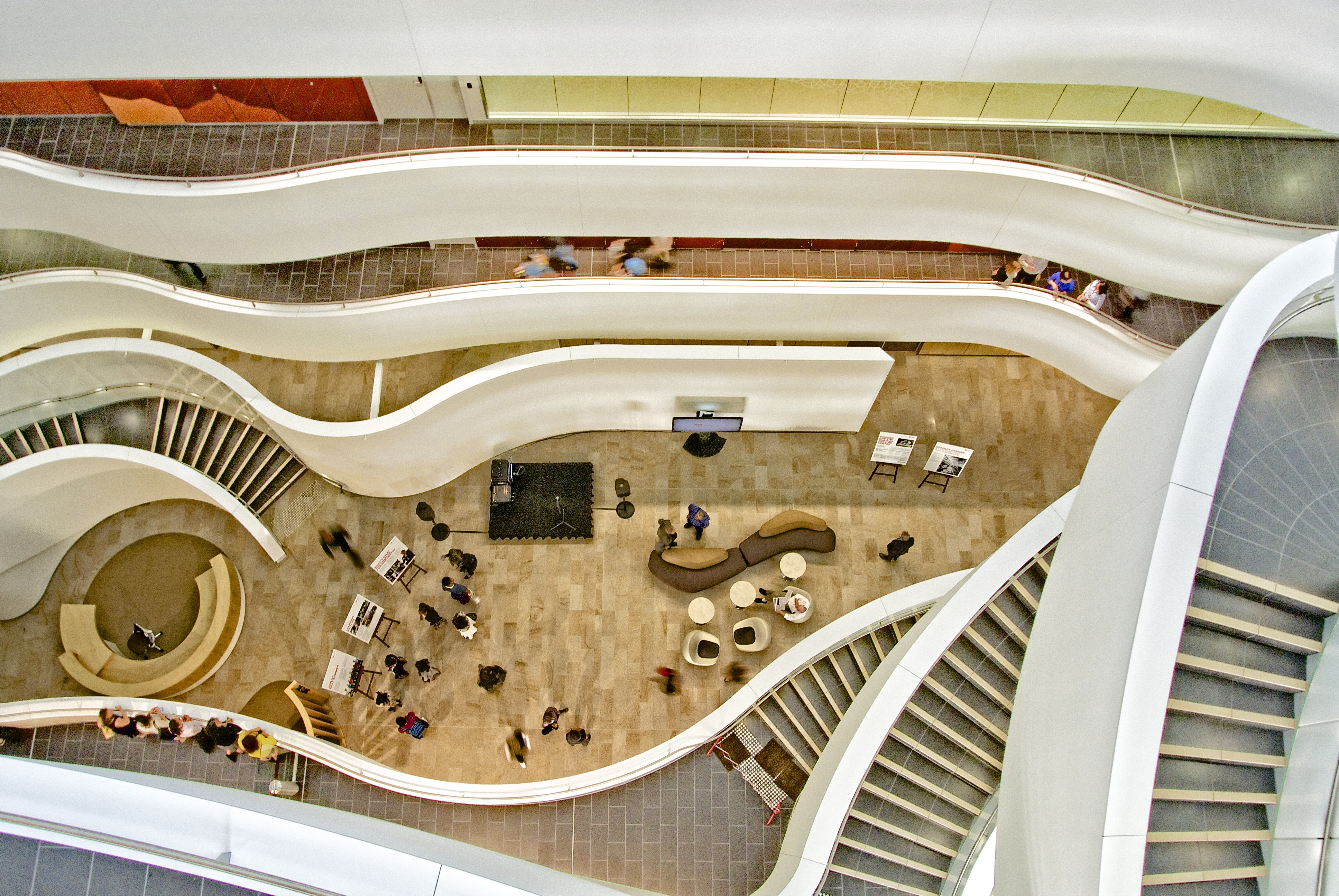 Charles Perkins Centre, University of Sydney